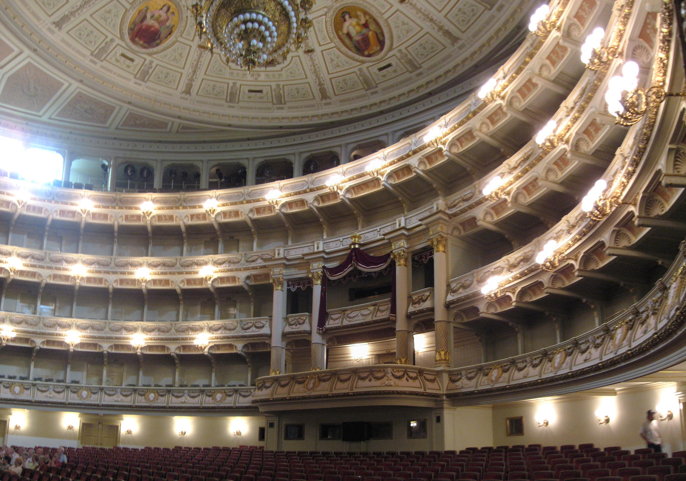 Interior of the Semperoper in Dresden.